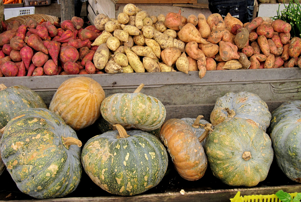 Pumpkins and sweet potatoes, taken in Padangpanjang, West Sumatra.